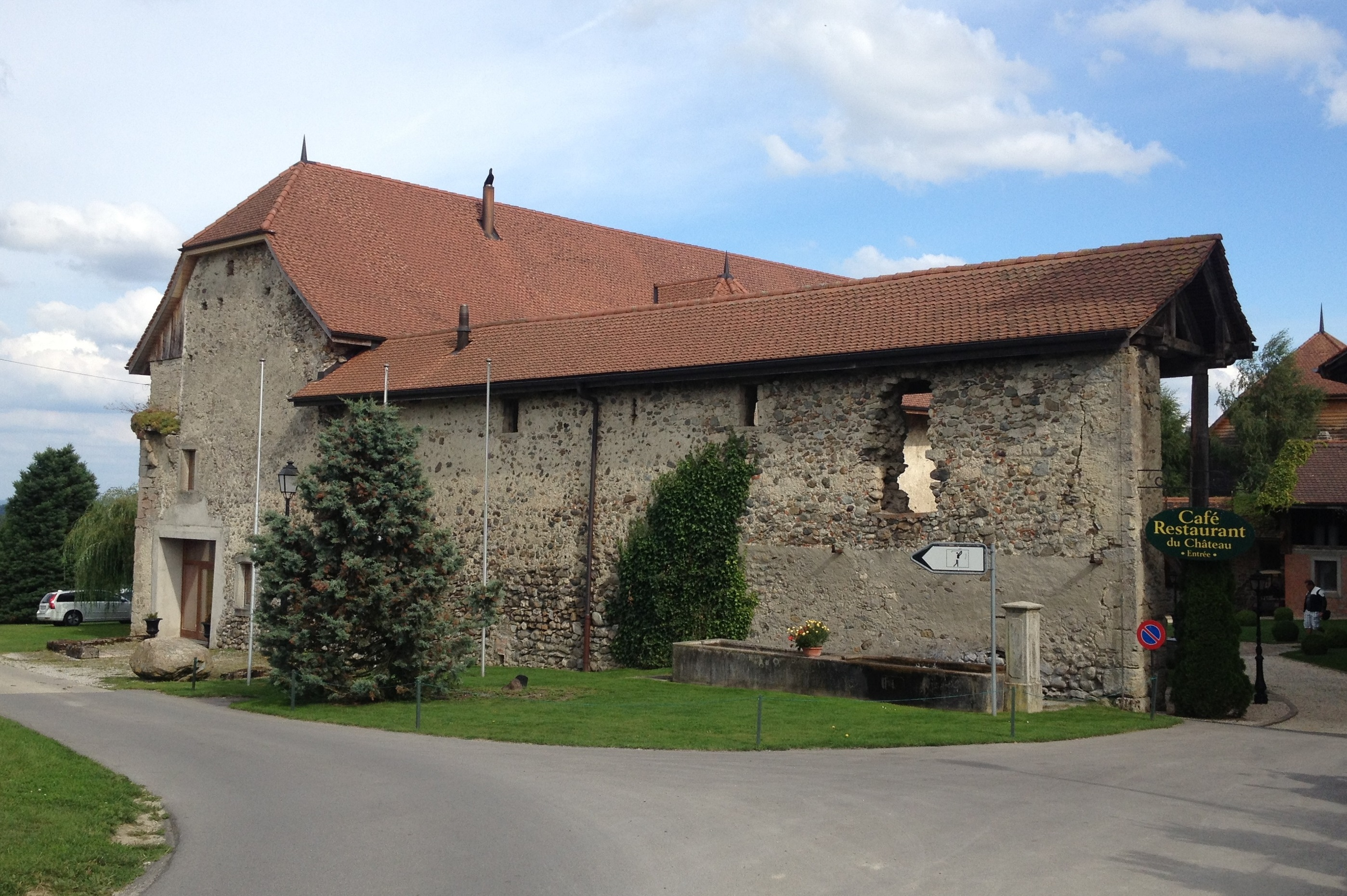 Vuissens castle, canton of Fribourg, Switzerland.